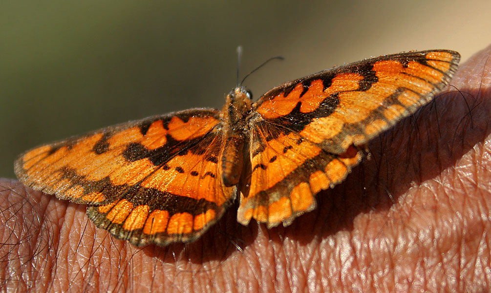 Byblia ilithyia - Joker- in Manjira Wildlife Sanctuary, Andhra Pradesh, India.